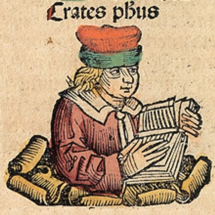 Ancient Greek philosopher Crates of Athens, depicted in the Nuremberg Chronicle